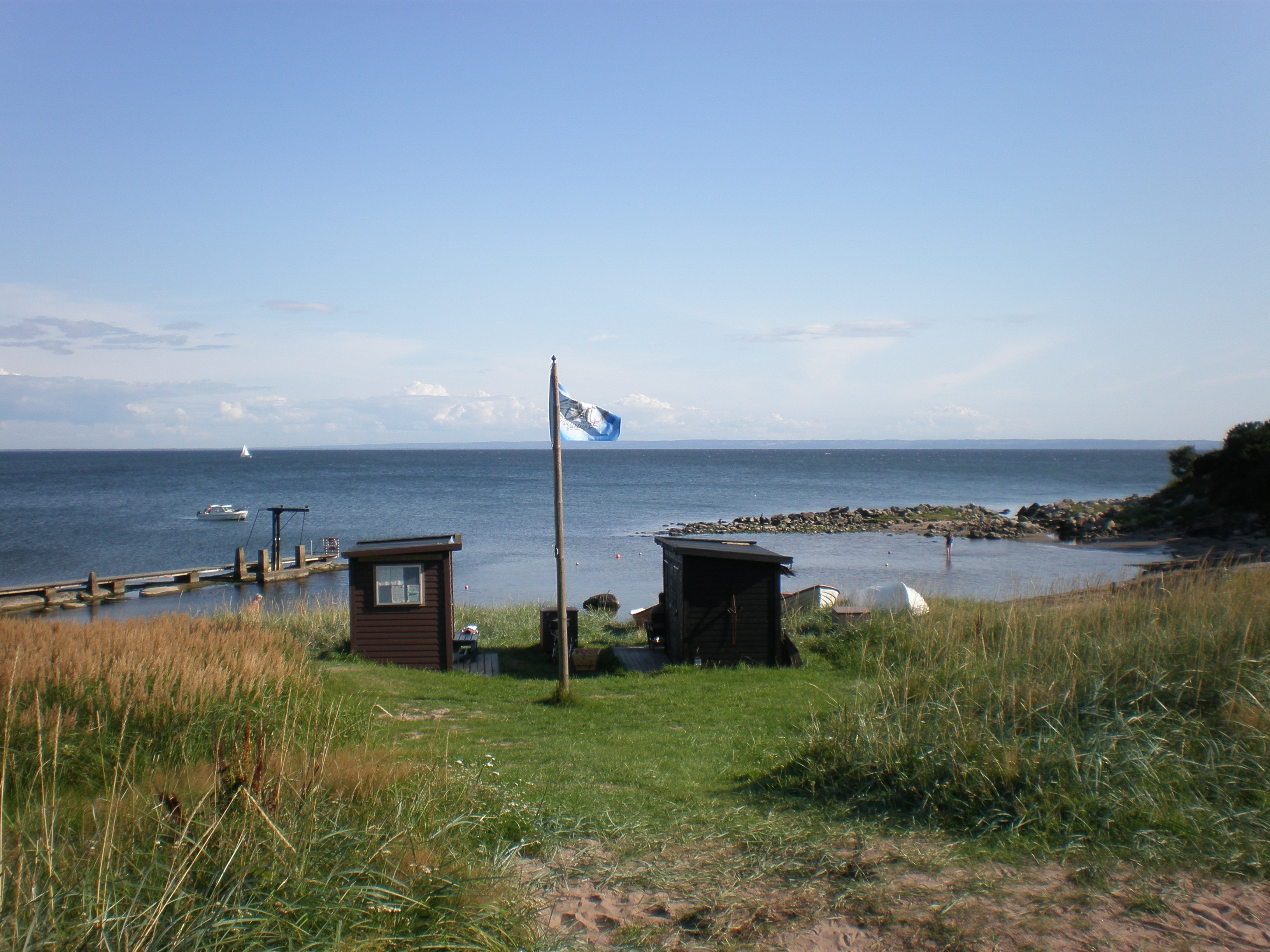 View of Tjuvahalan in Tylosand